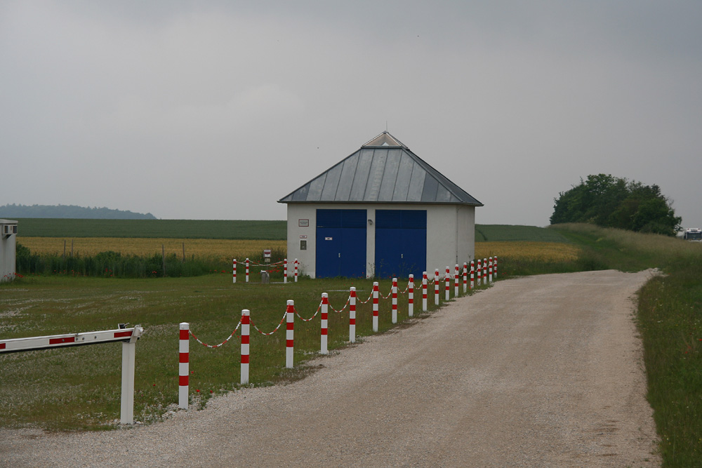 Emergency exit of the Stammham Tunnel, Nuremberg–Ingolstadt high-speed railway line